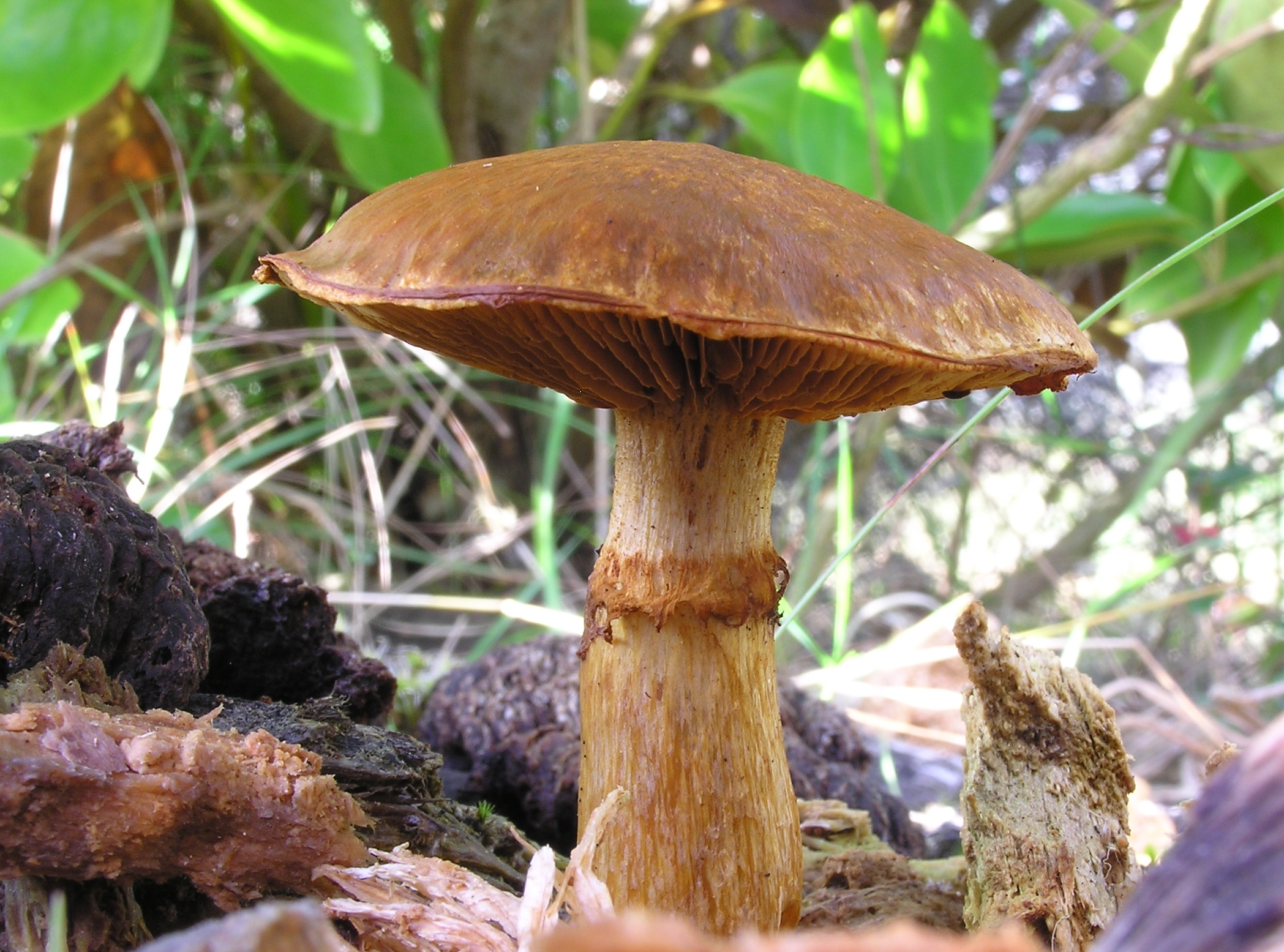 Mushroom growing on dead pinus radiata stump, Wellington, New Zealand.